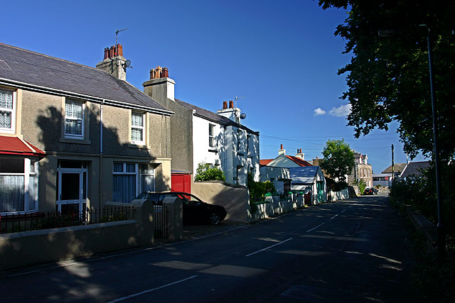 Colby. Looking down the A27 to the junction with the main road (A7).